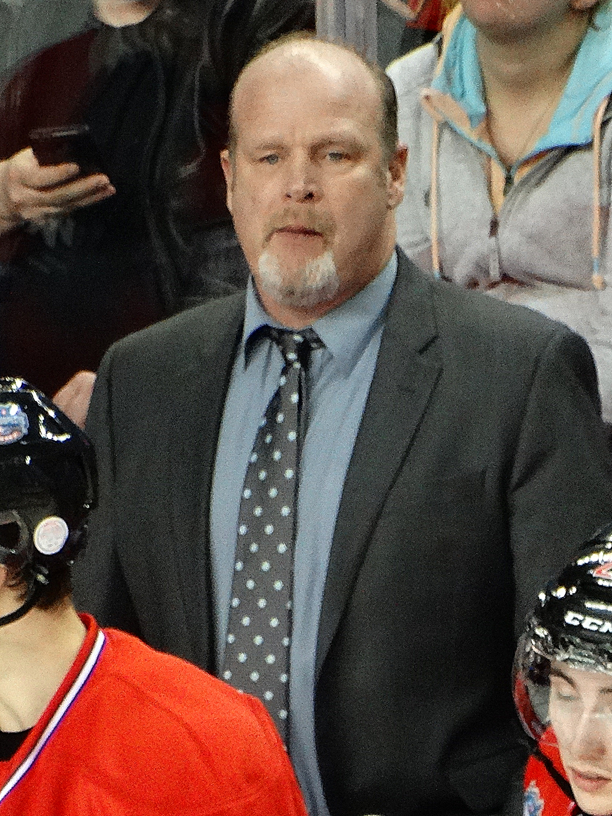 Mark Hunter won the Stanley Cup with the 1988-89 Calgary Flames. He was an assistant coach for Team Cherry. The CHL Top Prospects game at Scotiabank Saddledome on January 15, 2014 in Calgary, Alberta, Canada. Team Orr defeated Team Cherry 4-3.